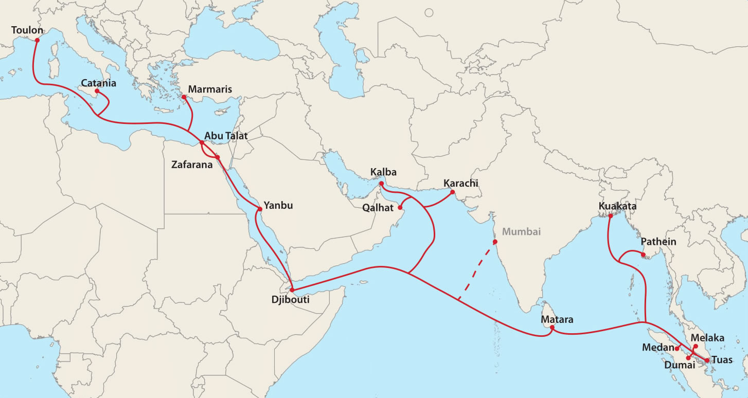 Entire route with landings